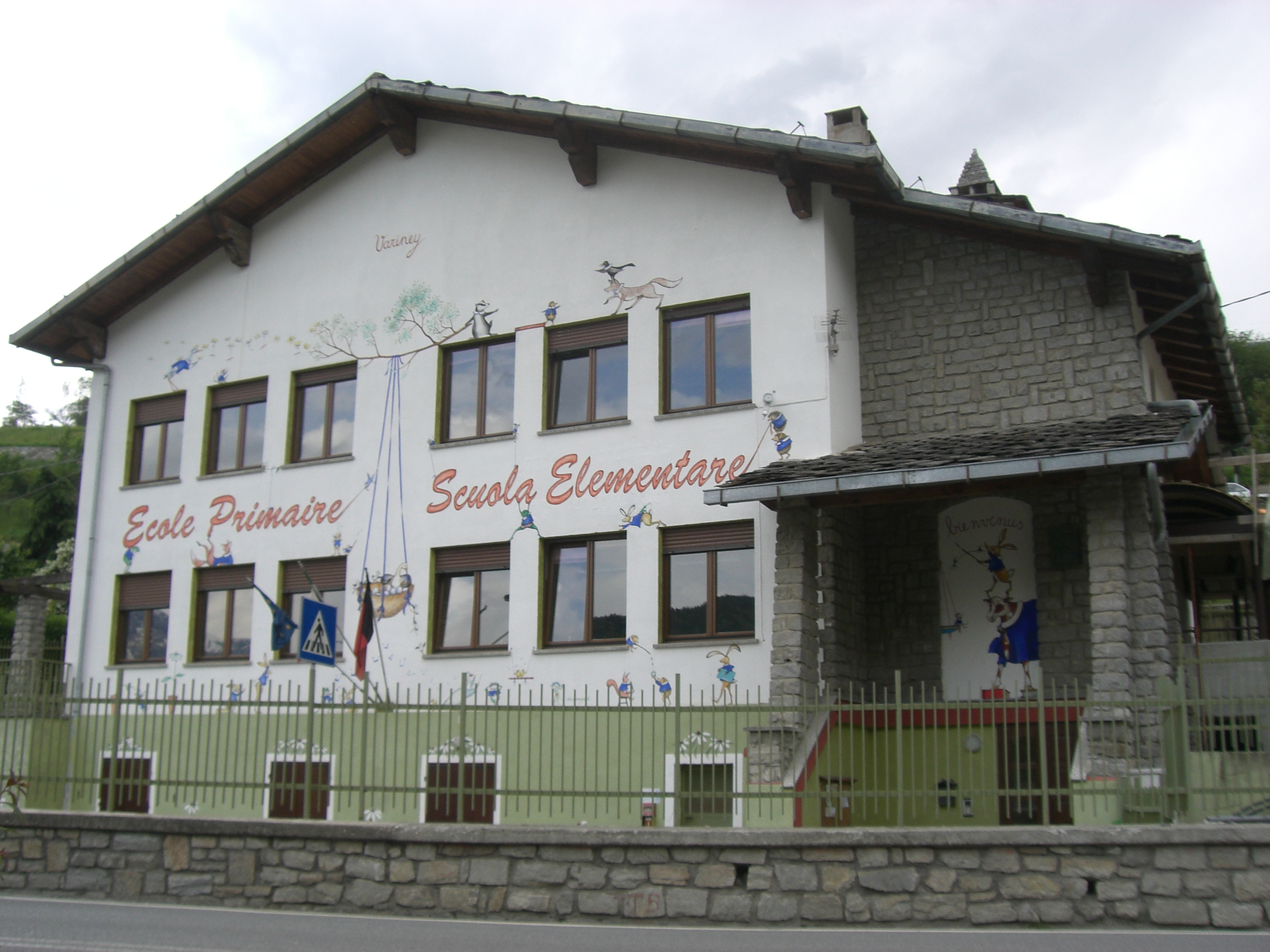 The school in Variney (Aosta Valley - Italy)